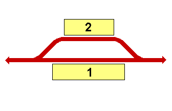 Diagram of Crossing Loop showing Main & Loop working